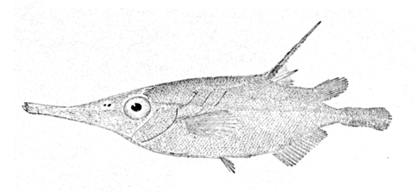 Longspine snipefish, Macroramphosus scolopax. From #28755, U. S. N. M., collected be the streamer “Fish Hawk”, at station 940, in 39° 54′ N 69° 51′ 30″ W, at depth of 130 fathoms (ca. 238 m).